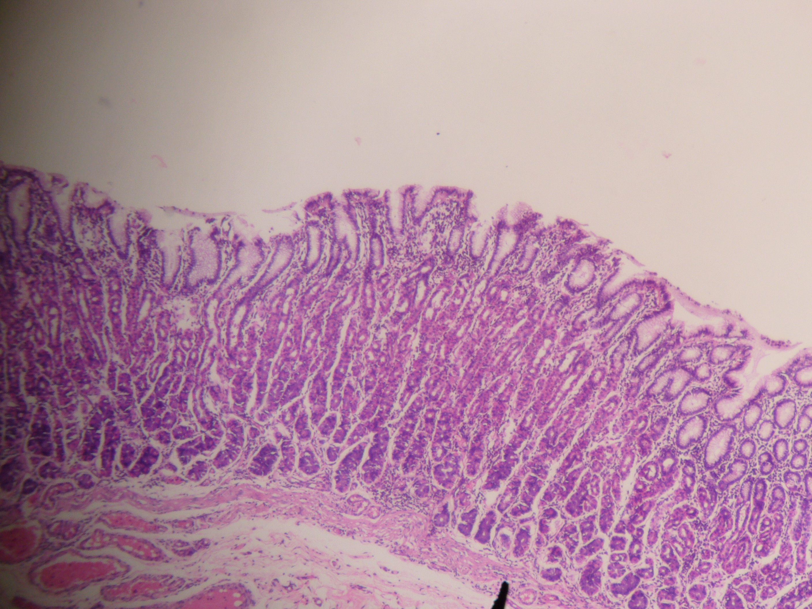 Author's own picture. Digital camera shot of human stomach wall through a microscope.